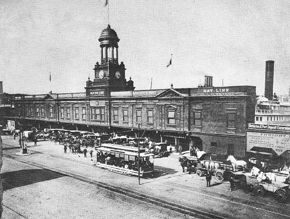 The Baltimore Steam Packet Company's terminal on Light Street in Baltimore, Maryland (1898–1950), as it appeared in 1911. The now-demolished terminal's former Pier 10 Light Street site is between the present Harborplace and Maryland Science Center.